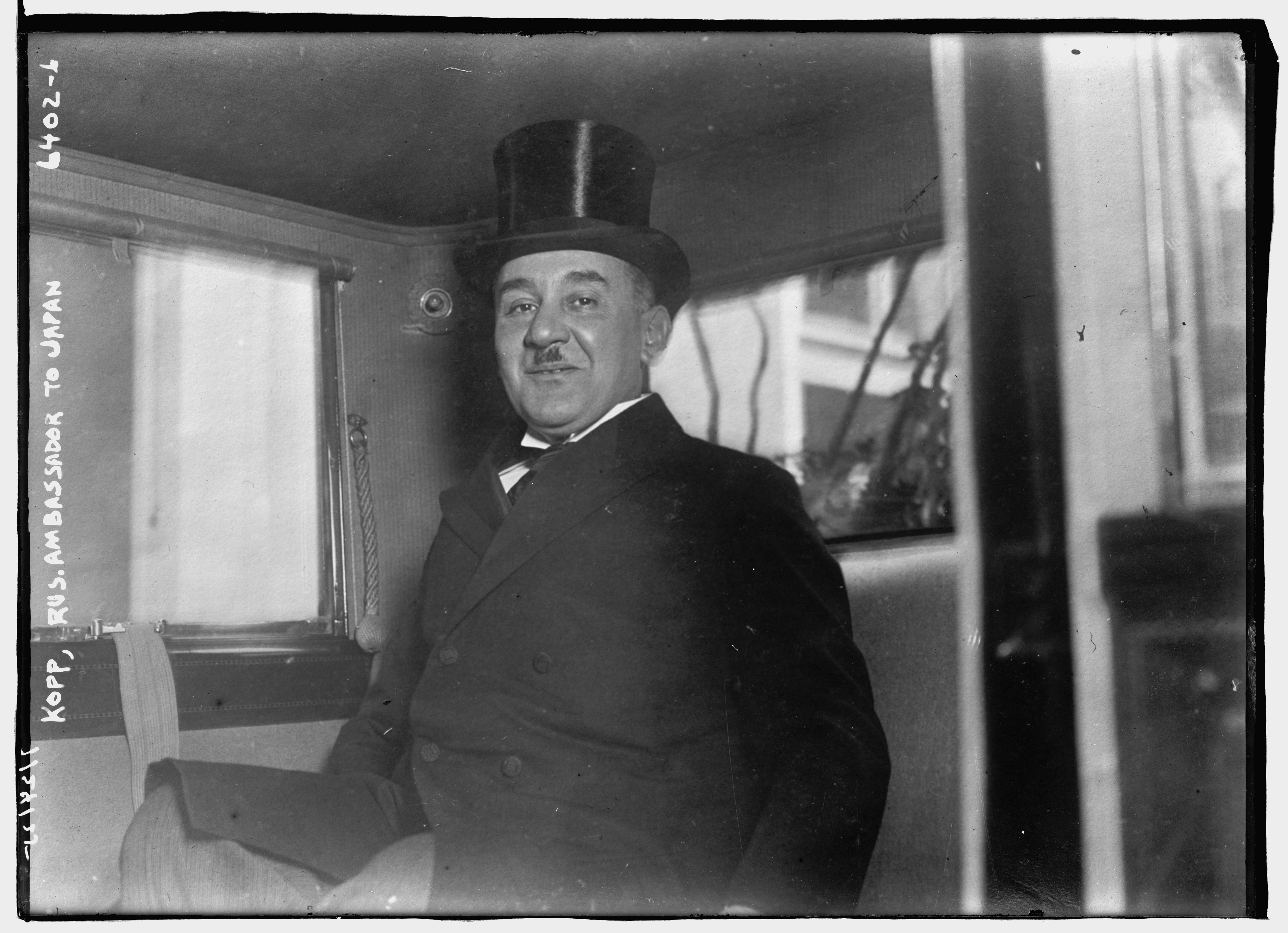 Title: Kopp, Russian Ambassador to Japan Abstract/medium: 1 negative : glass ; 5 x 7 in. or smaller.